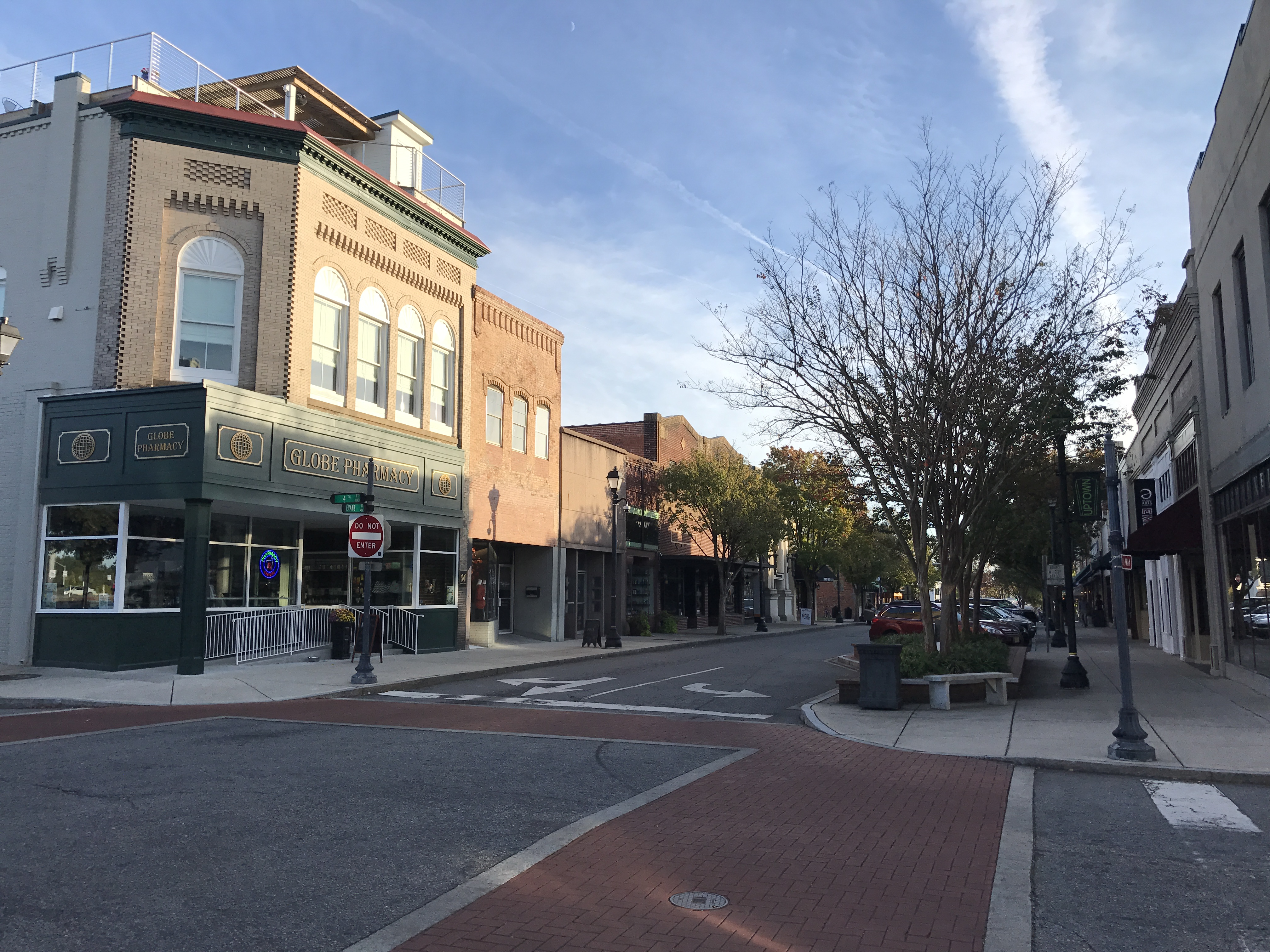 Greenville uptown district